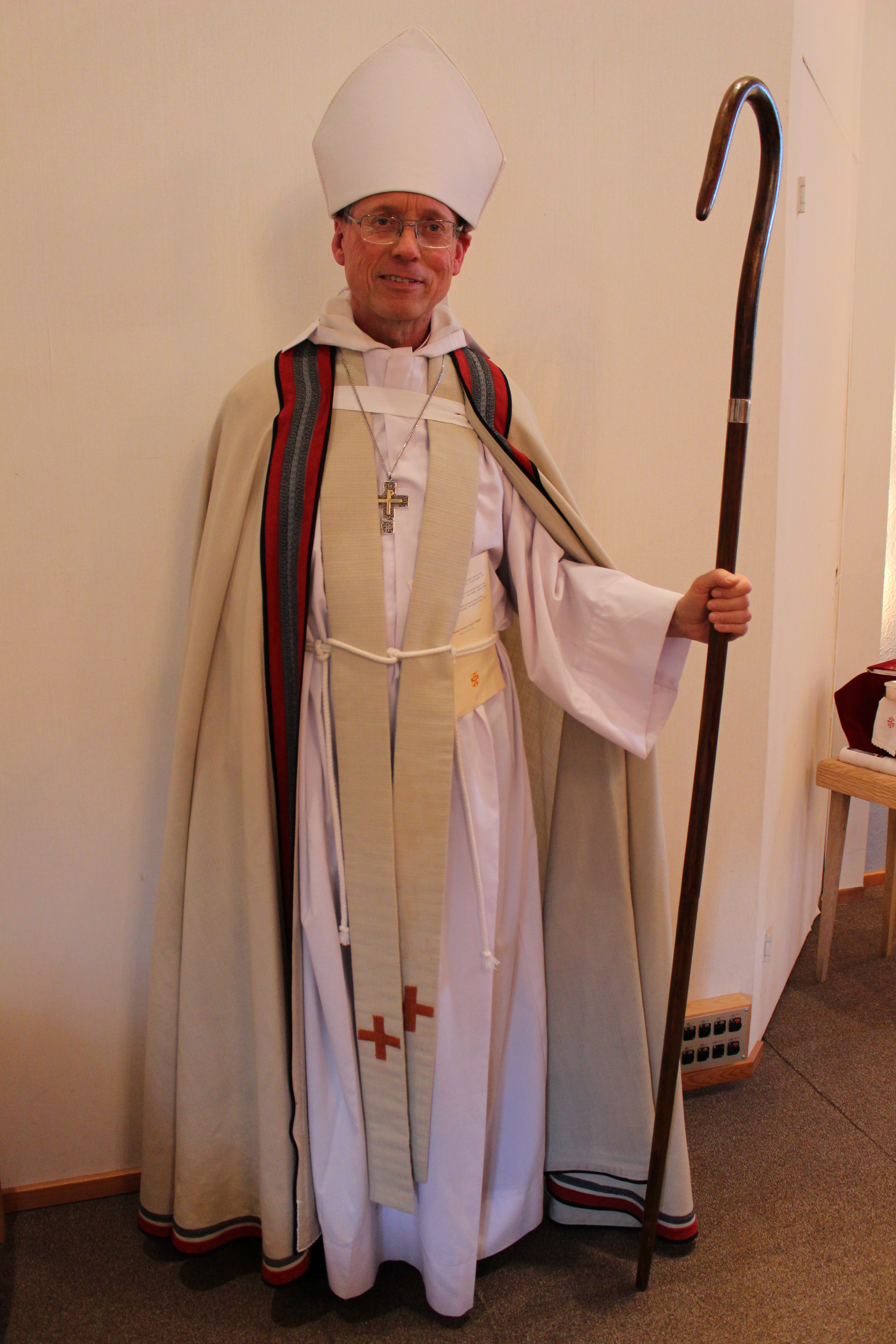 Bishop Lars Artman, Missionsprovinsen.